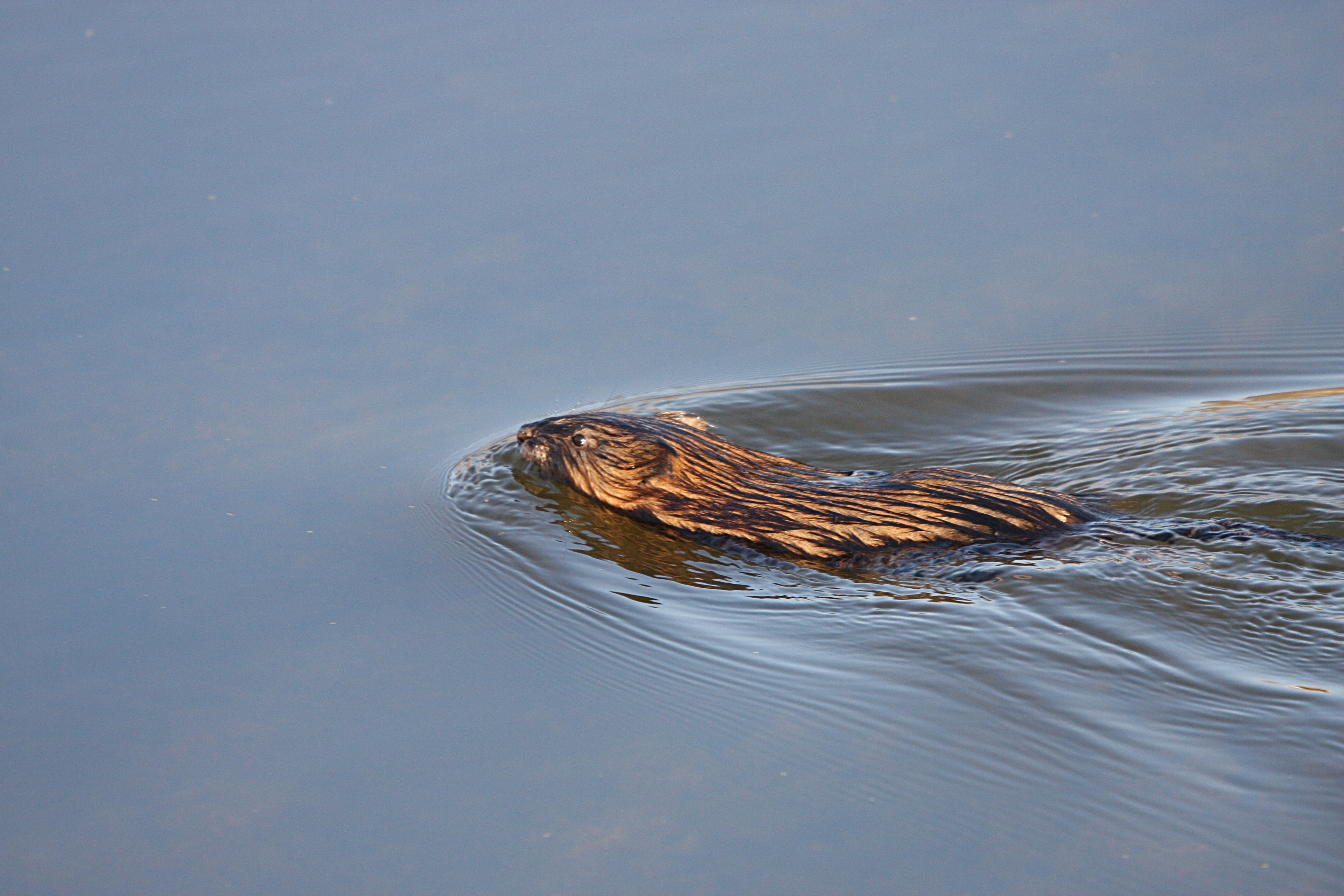 Muskrat (Ondatra zibethicus), Léon-Provancher marsh, Québec, Canada.